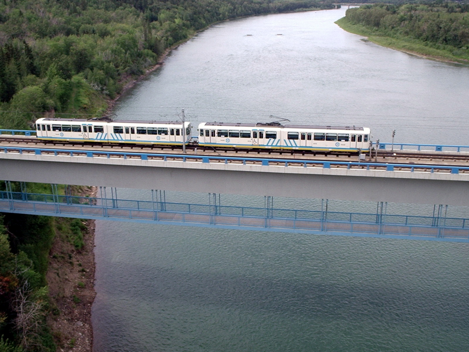 Light Rail Transit train on the Dudley B. Menzies Bridge in Edmonton, Canada